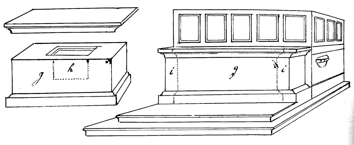 Main altar and support for the reliquary chest of Saint Servatius and the reliquary tablets of St Monulph, St Gondulph, St Valentine and St Candidus in the choir of the church of Saint Servatius in Maastricht, Netherlands. Situation: before 1811. Drawing by Martinus van Heylerhoff, ±1820 (in: R. Kroos, Der Schrein des heiligen Servatius in Maastricht, Abbildingen 4).